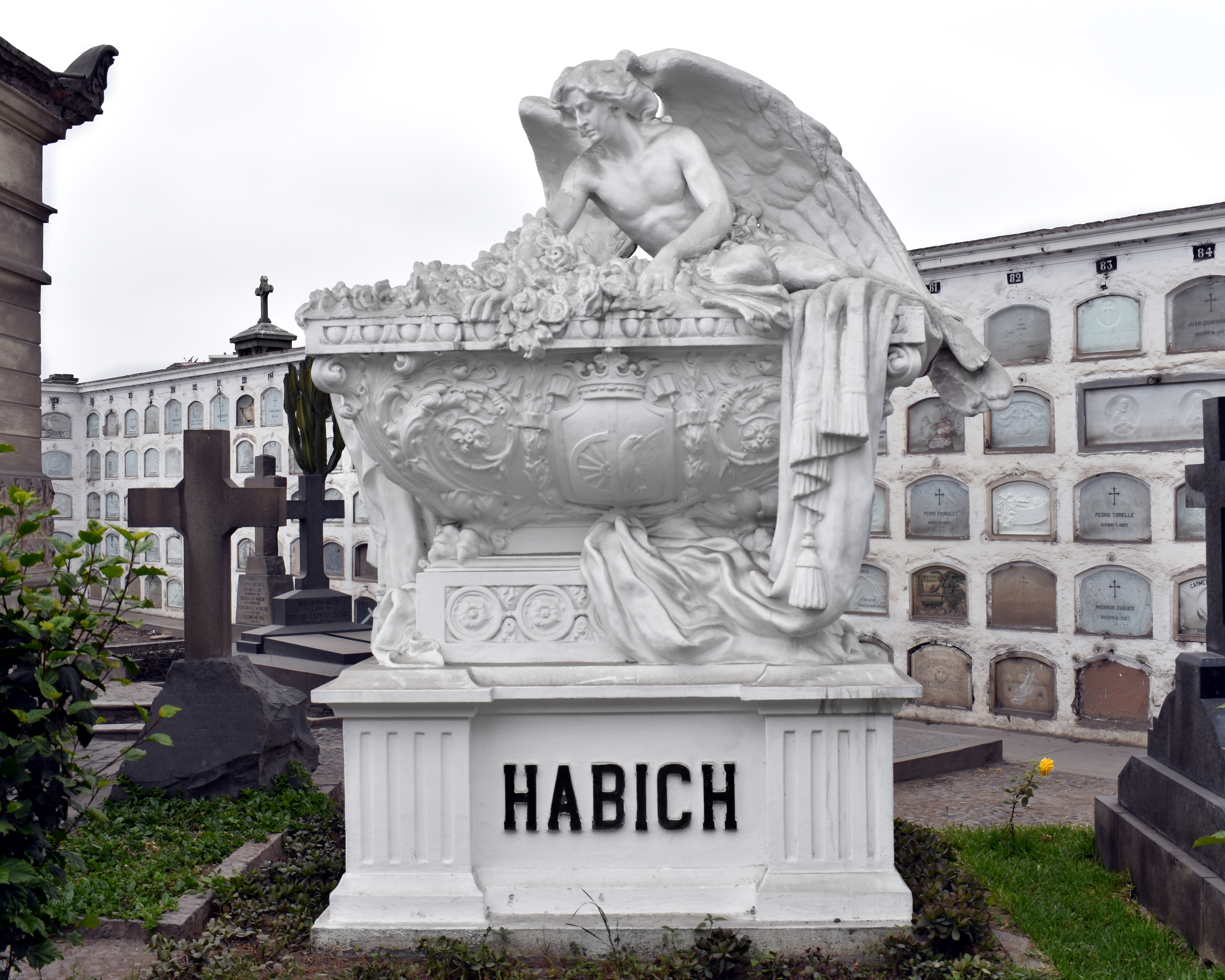 Funerary monument for Eduardo Juan de Habich, born in Warsaw, Poland; founder of the National University of Engineering in Lima, a member of the Peruvian Geographic Society and an Honorary Citizen of Peru